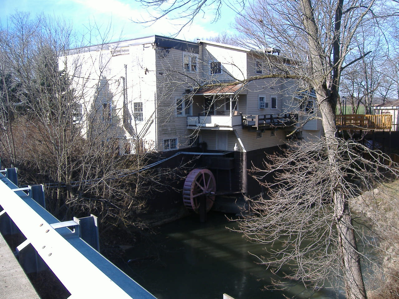 Bazore Mill located in Pickaway County, Ohio.